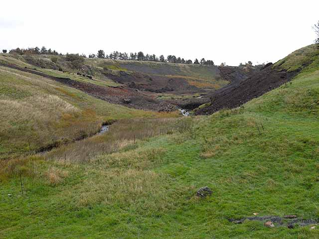 Site of Tindale spelter works A large works existed here during the 19th century to extract zinc from spent lead ore brought down from Alston Moor. The works closed in 1895 when Lady Carlisle, the landlord, insisted on high standards for workers' houses, which proved uneconomic for the operators to provide. The works were reopened briefly twice in the 20th century. In the 1950s, the huge quanitity of waste material was used as hardcore in the construction of the Blue Streak rocket testing facility at Spadeadam. Small quantites of slag can still be seen on the slopes.